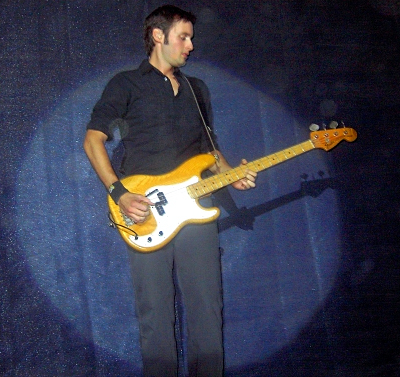 Mark Tavassol (Wir sind Helden) live at Museumsplatz, Bonn